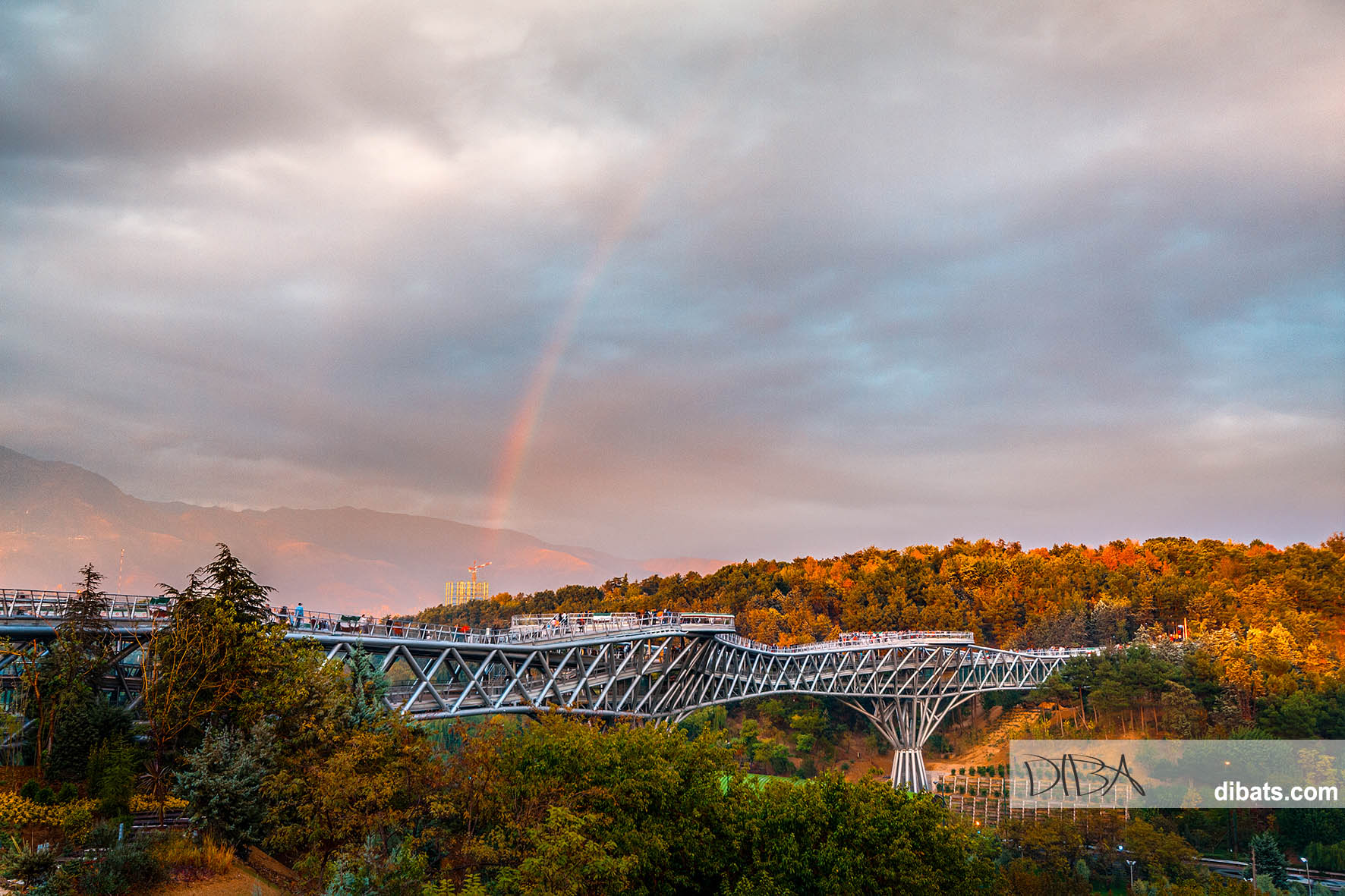 Tabiat Pedestrian Bridge, Tehran